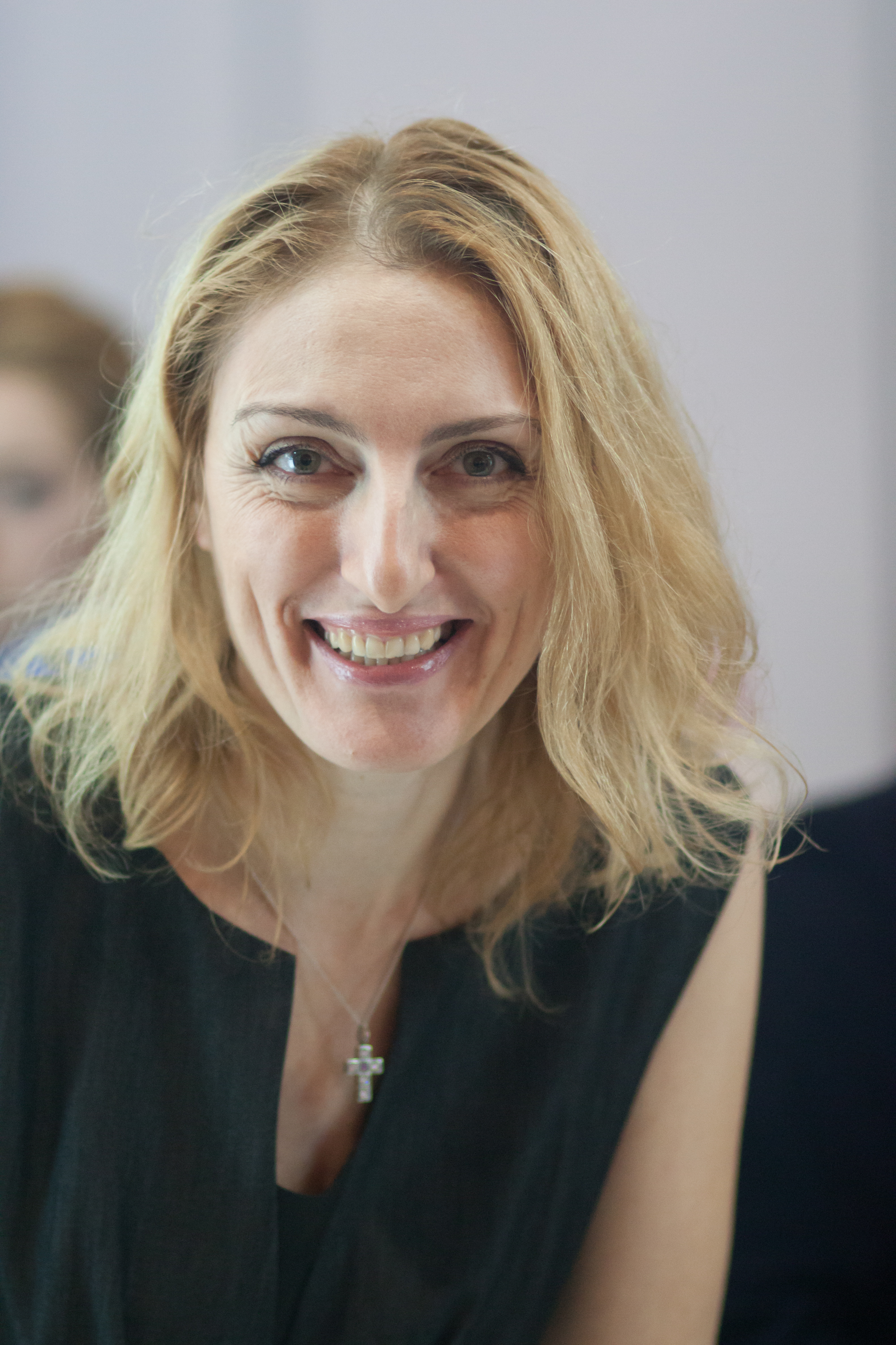 Russian-Armenian writer Narine Abgaryan in 2012